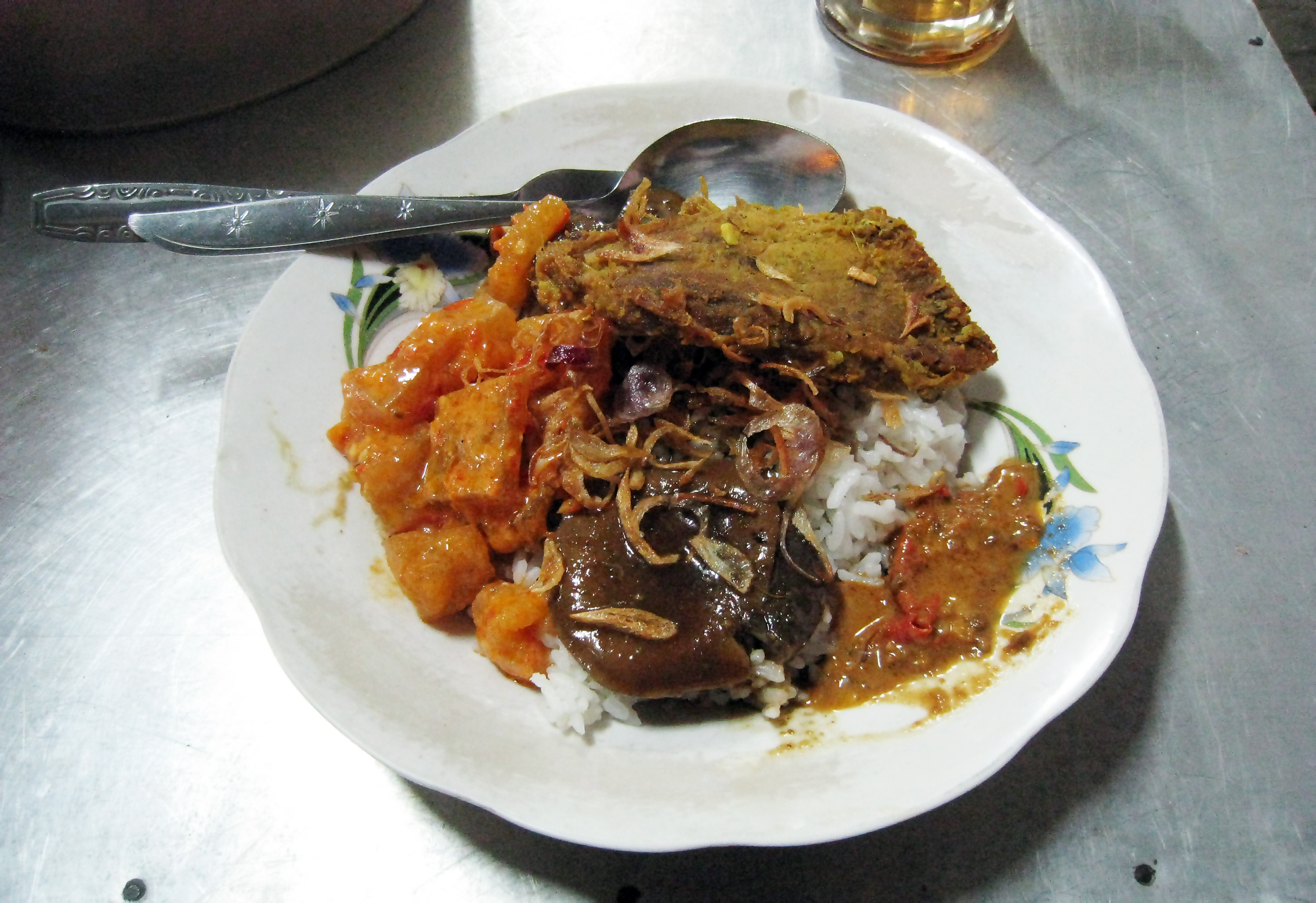 Nasi uduk (rice cooked in coconut milk) topped with jengkol (Archidendron pauciflorum), empal daging (fried beef), krecek (cow skin dish), and sambal kacang (peanut sambal). Specialty of Betawi people, Jakarta, Indonesia.